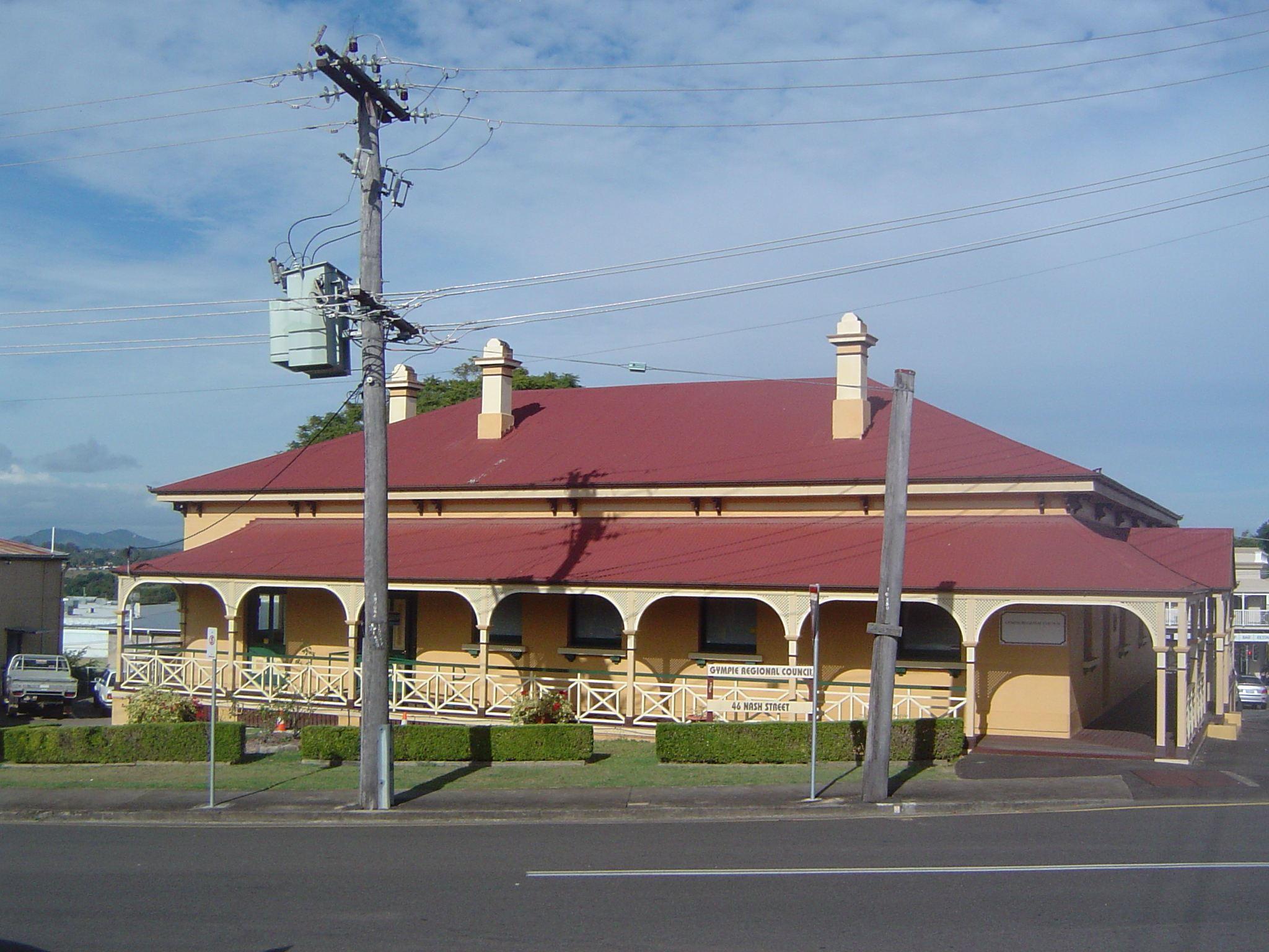 Photo of former Queensland National Bank in Nash Street, Gympie, Queensland, Australia.